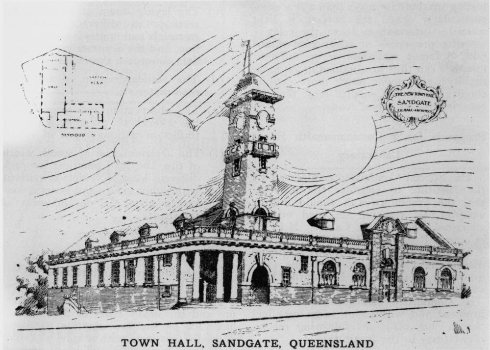 Architectural drawing of the Sandgate Town Hall, Queensland, 1919 Architectural drawing by T.H.Hall for the proposed Sandgate Town Hall.